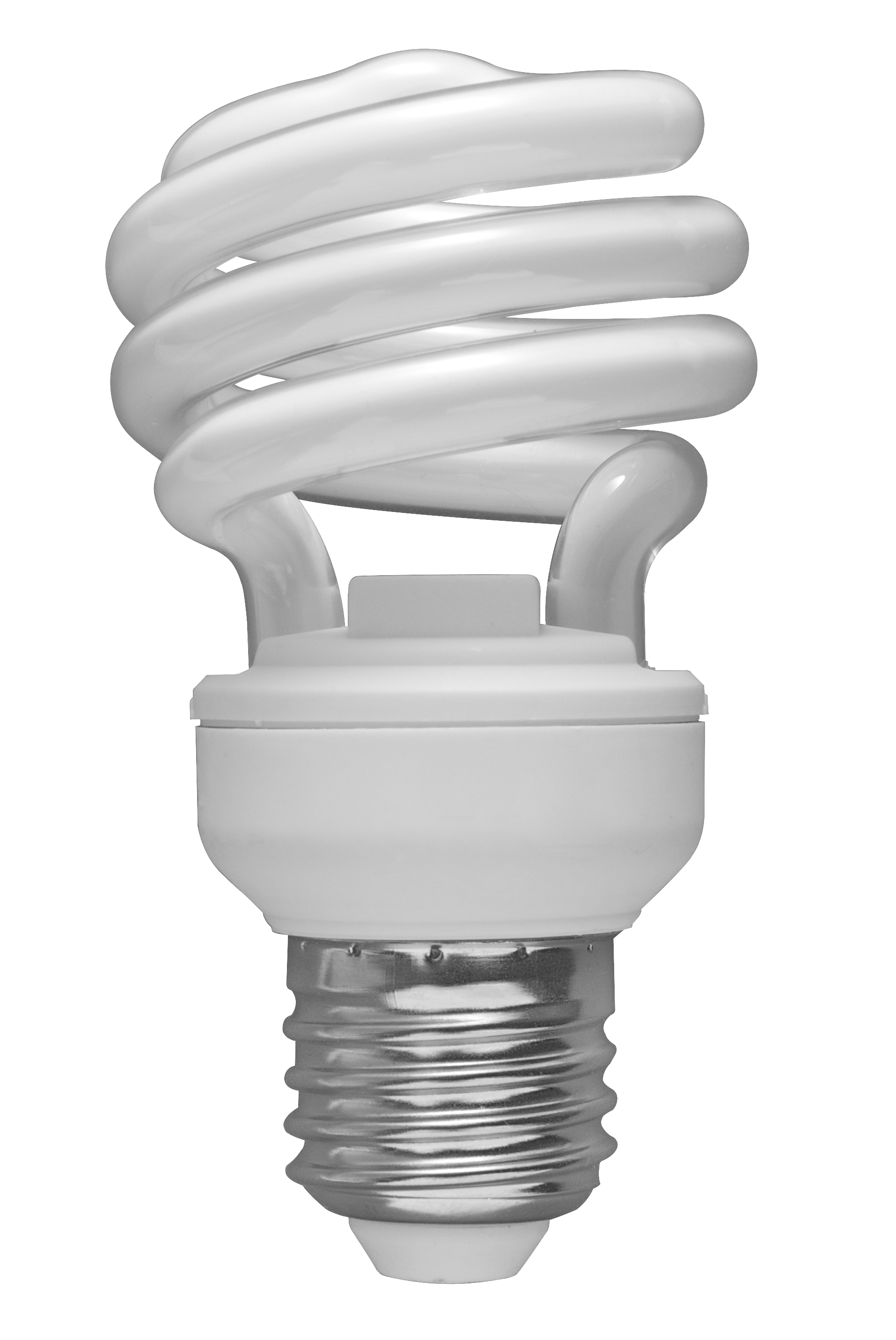 A spiral CFL bulb with a transparent background